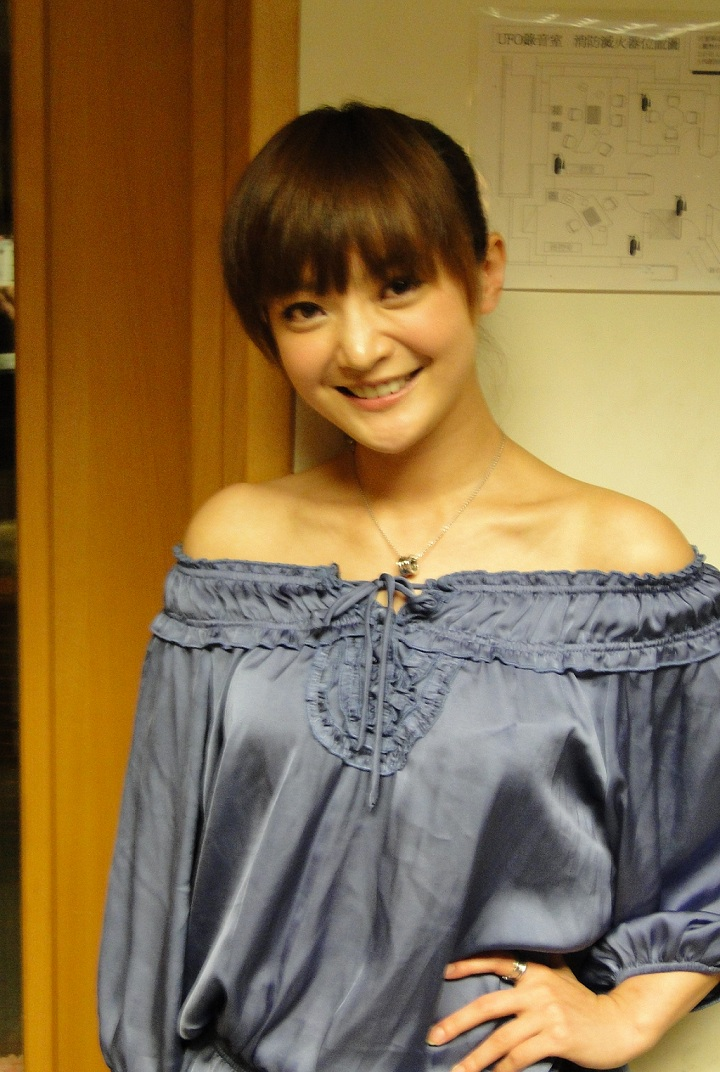 Qunnie Tai at UFO Radio, Otaku Army, 19 Jun 2011.